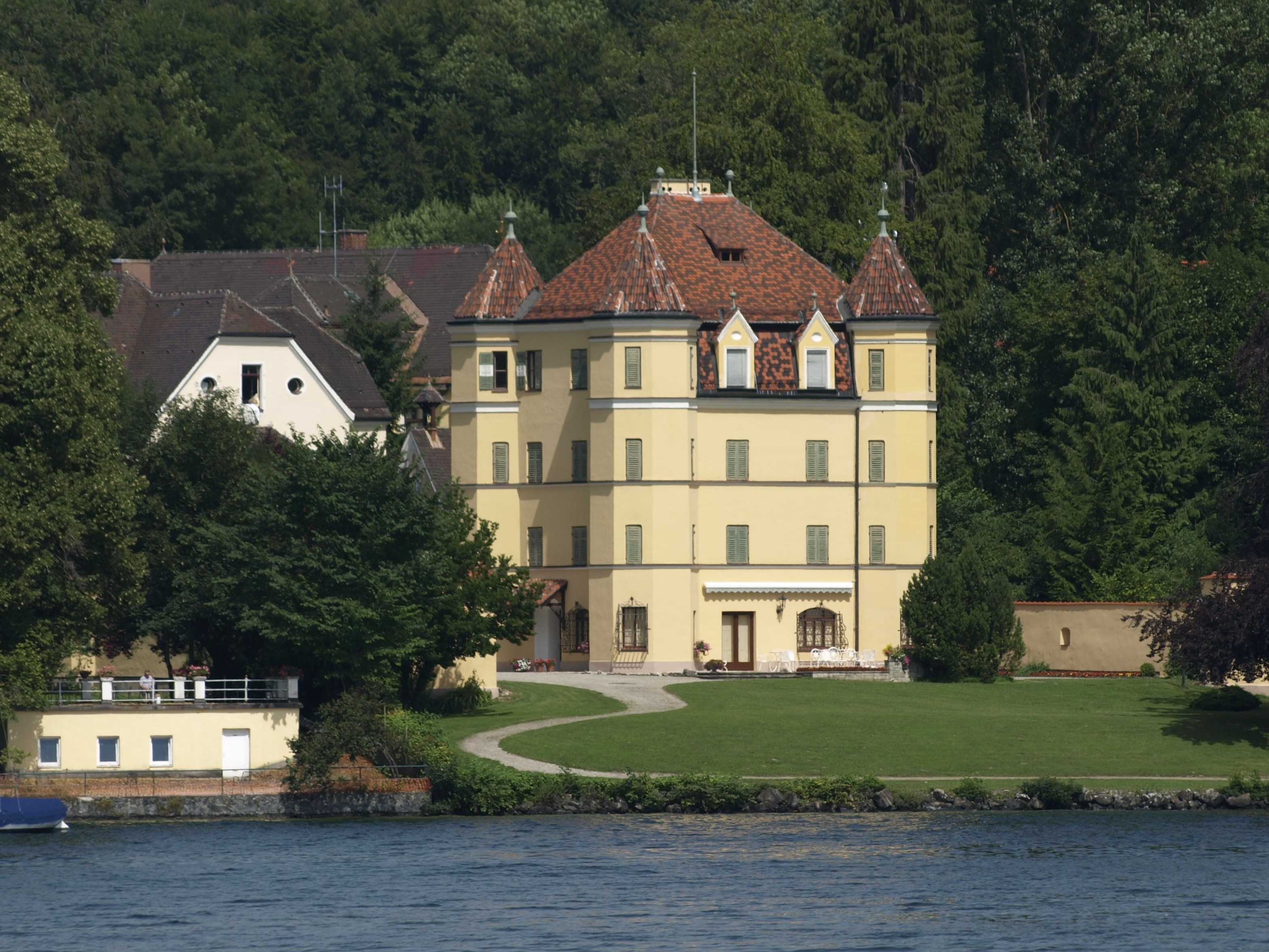 seaside view of Castle Garatshausen at the Lake Starnberg